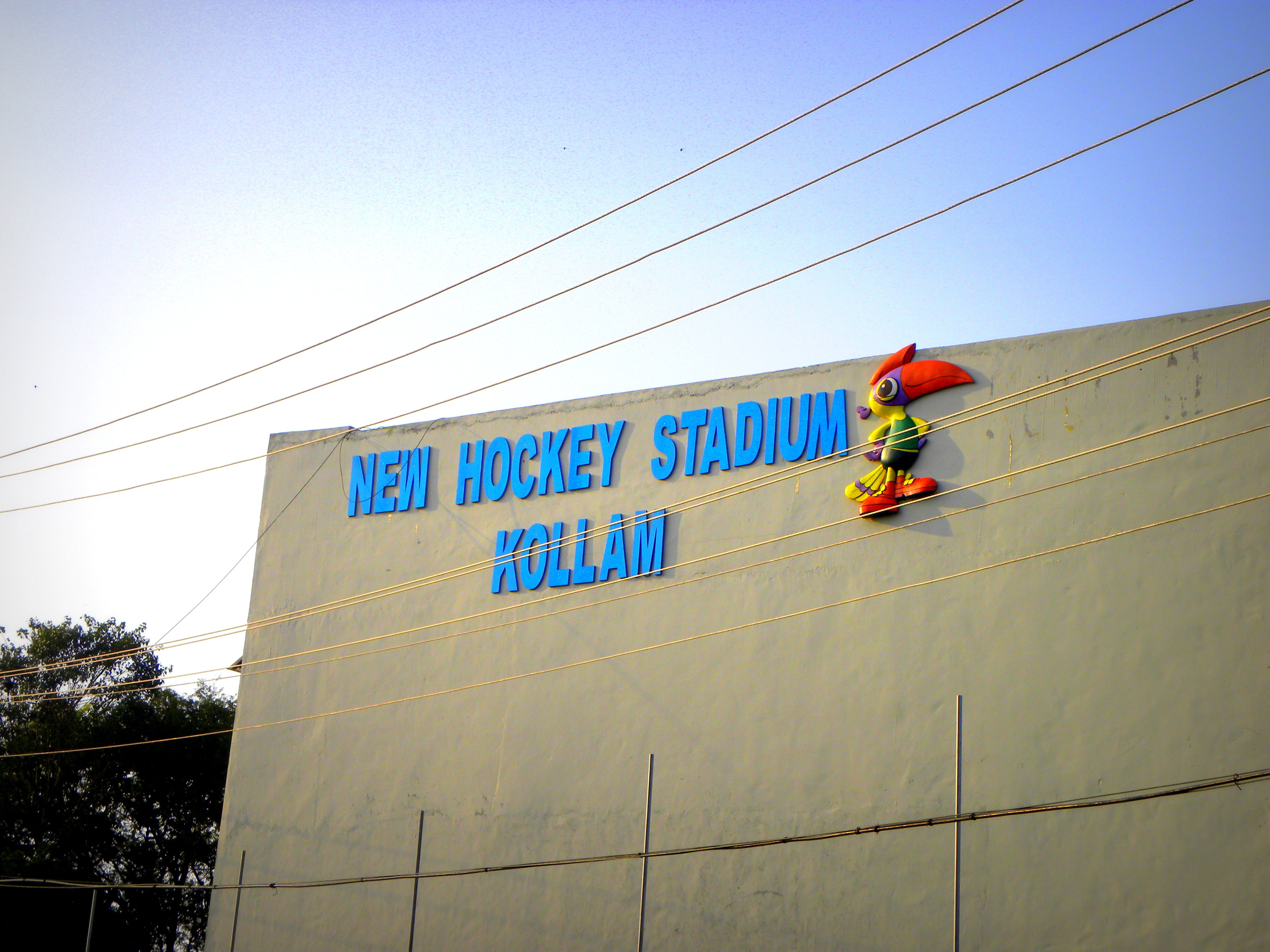 International Hockey Stadium, Kollam is the one and only astro-turf hockey stadium in Kerala